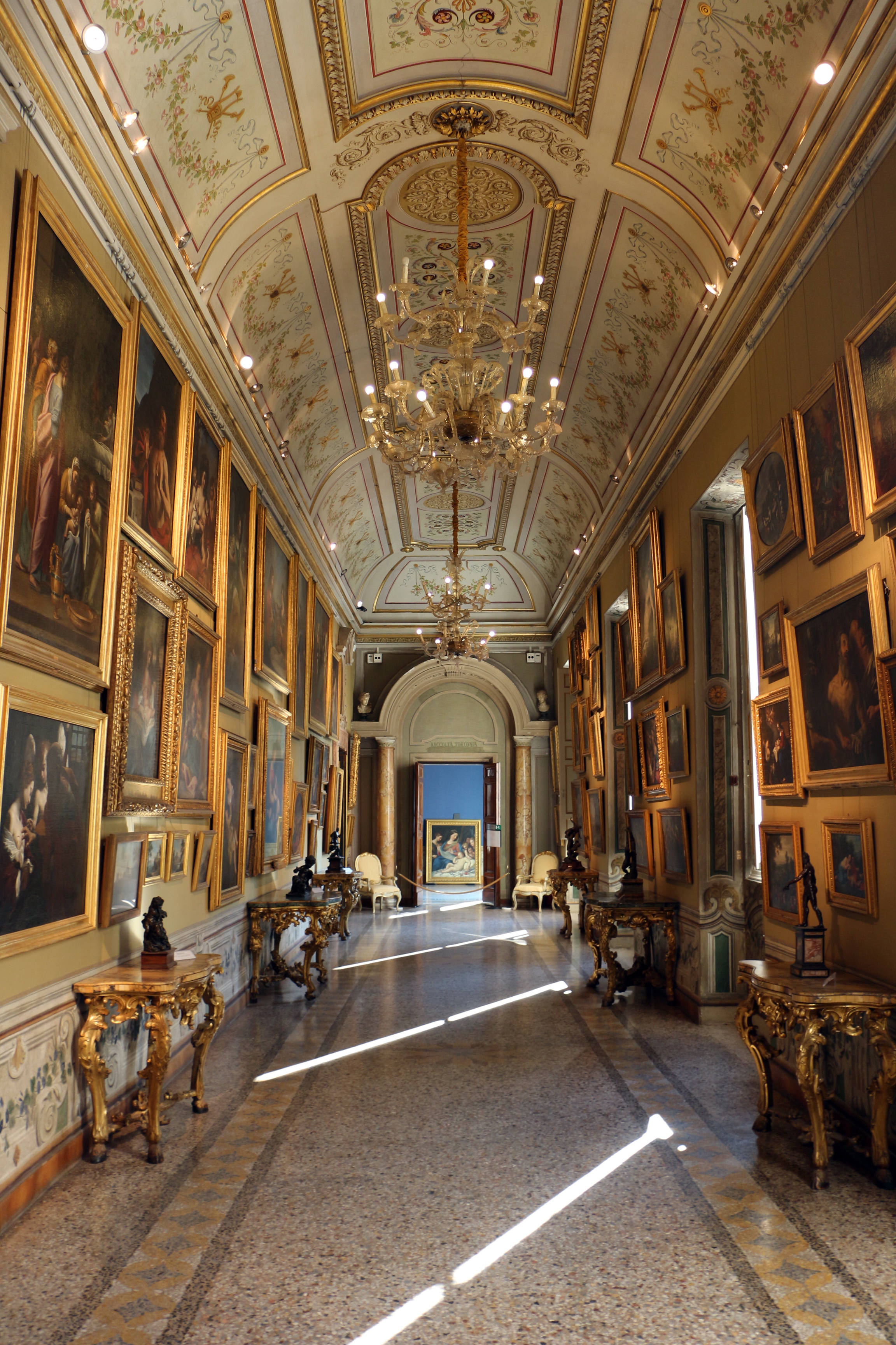 Palazzo Corsini alla Lungara (Rome)